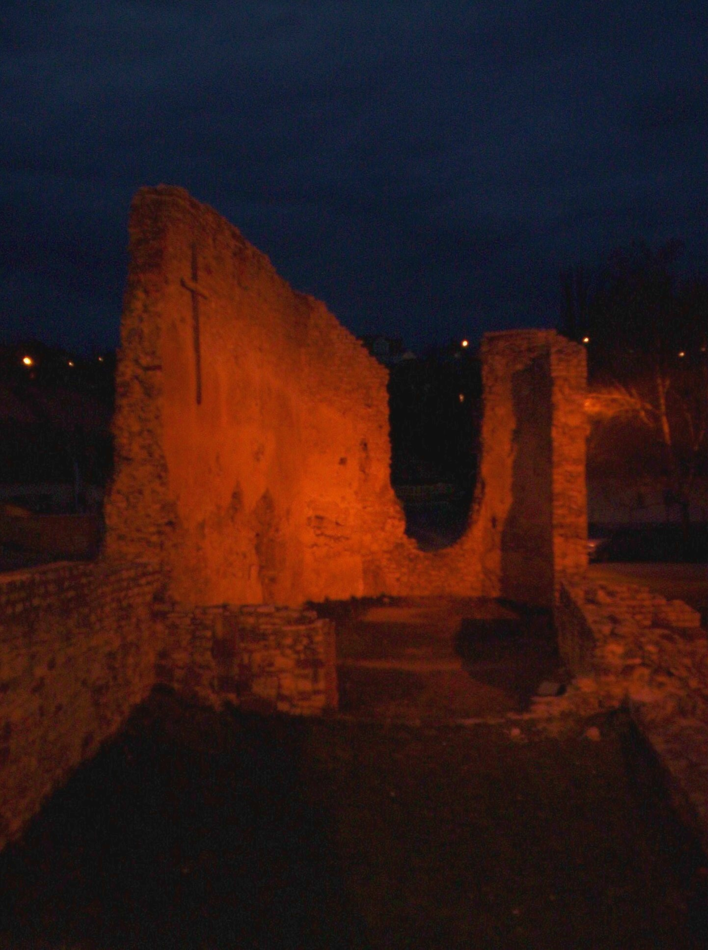 Ruins of the St. Catherine's Convent, called Margaret ruins